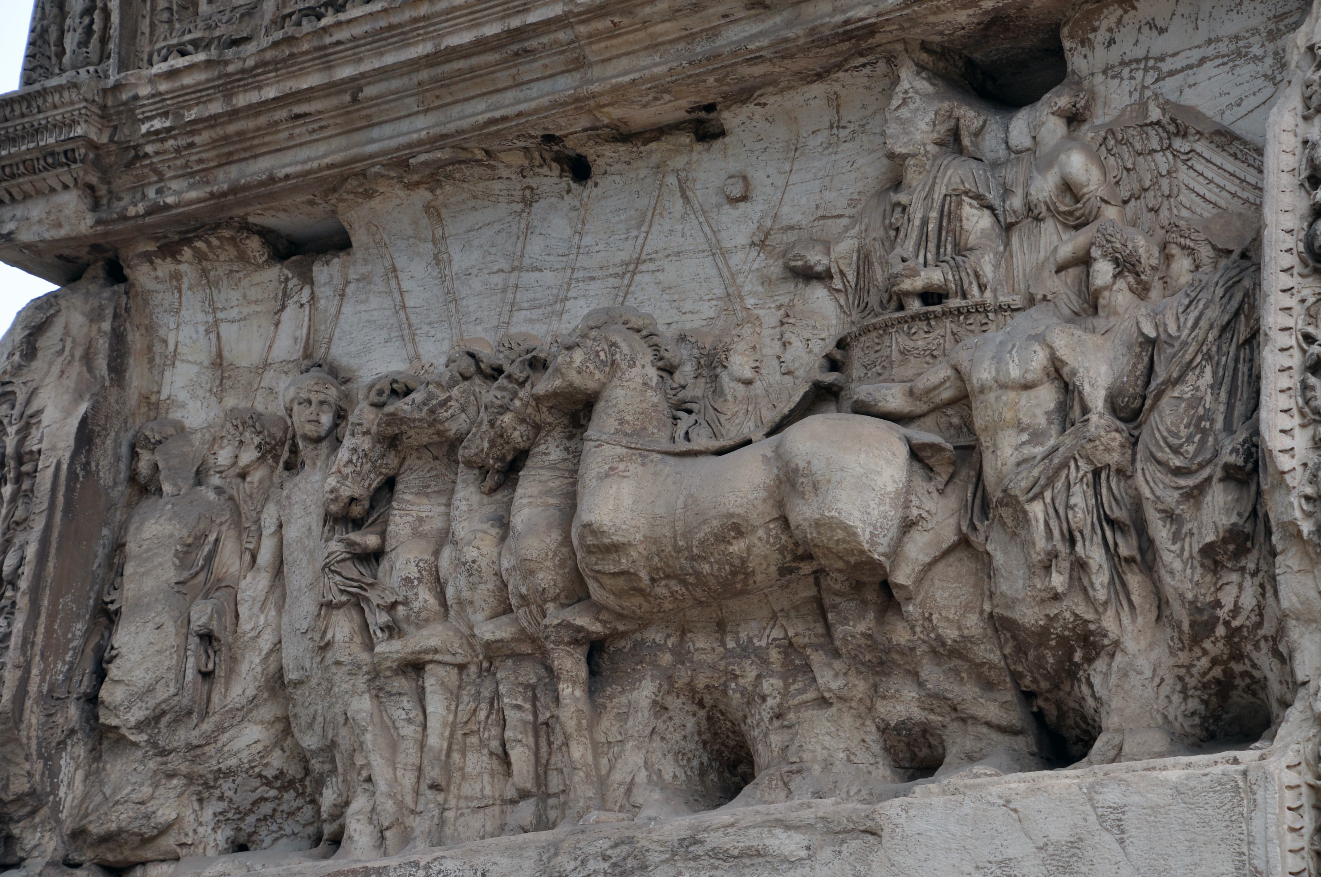 North, inner relief from the Arch of Titus in the Roman Forum.